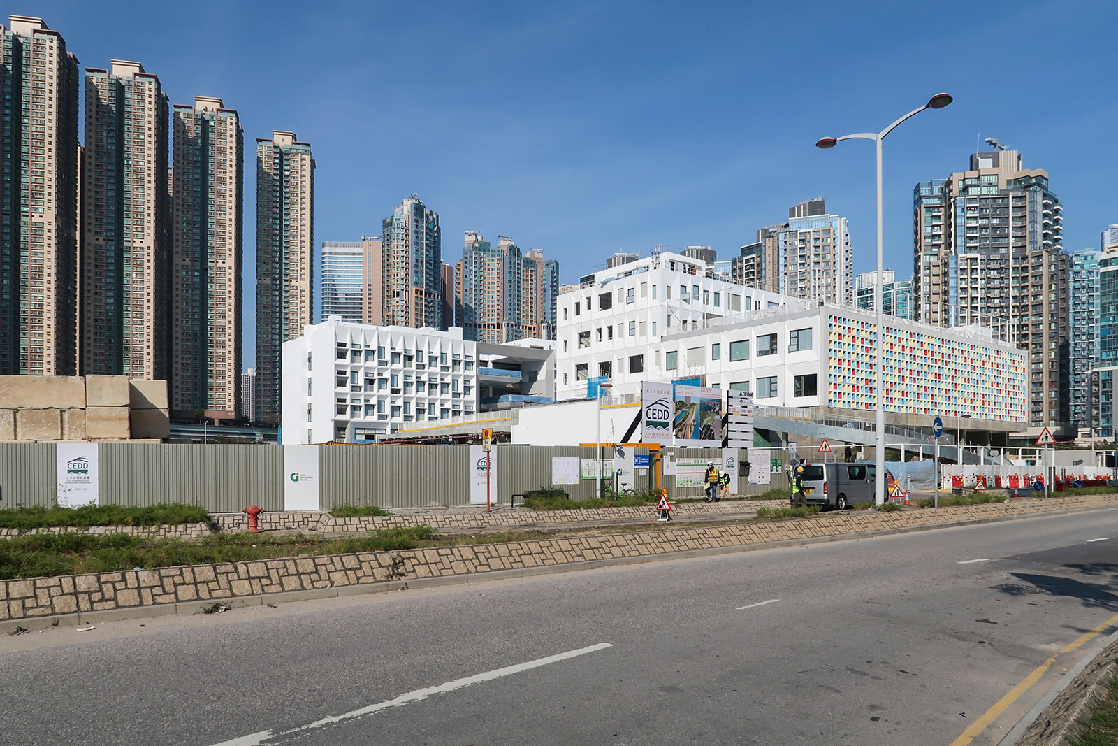 French International School Victor Segalen of Hong Kong-TKO Campus site